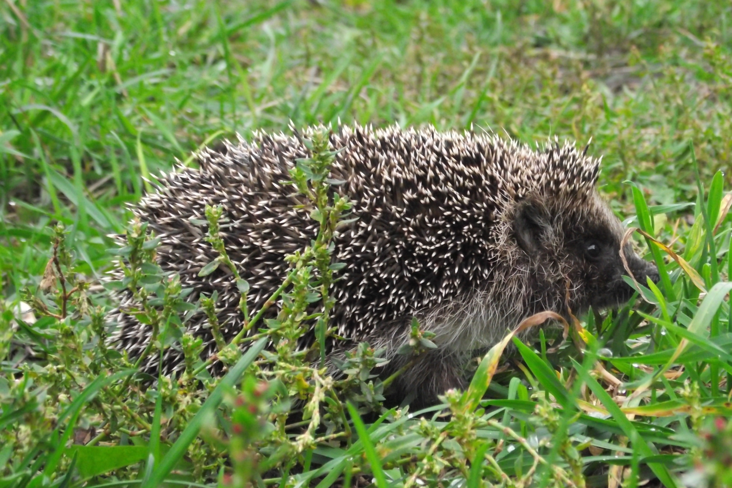 Juvenile Erinaceus roumanicus, Moscow region, Russia